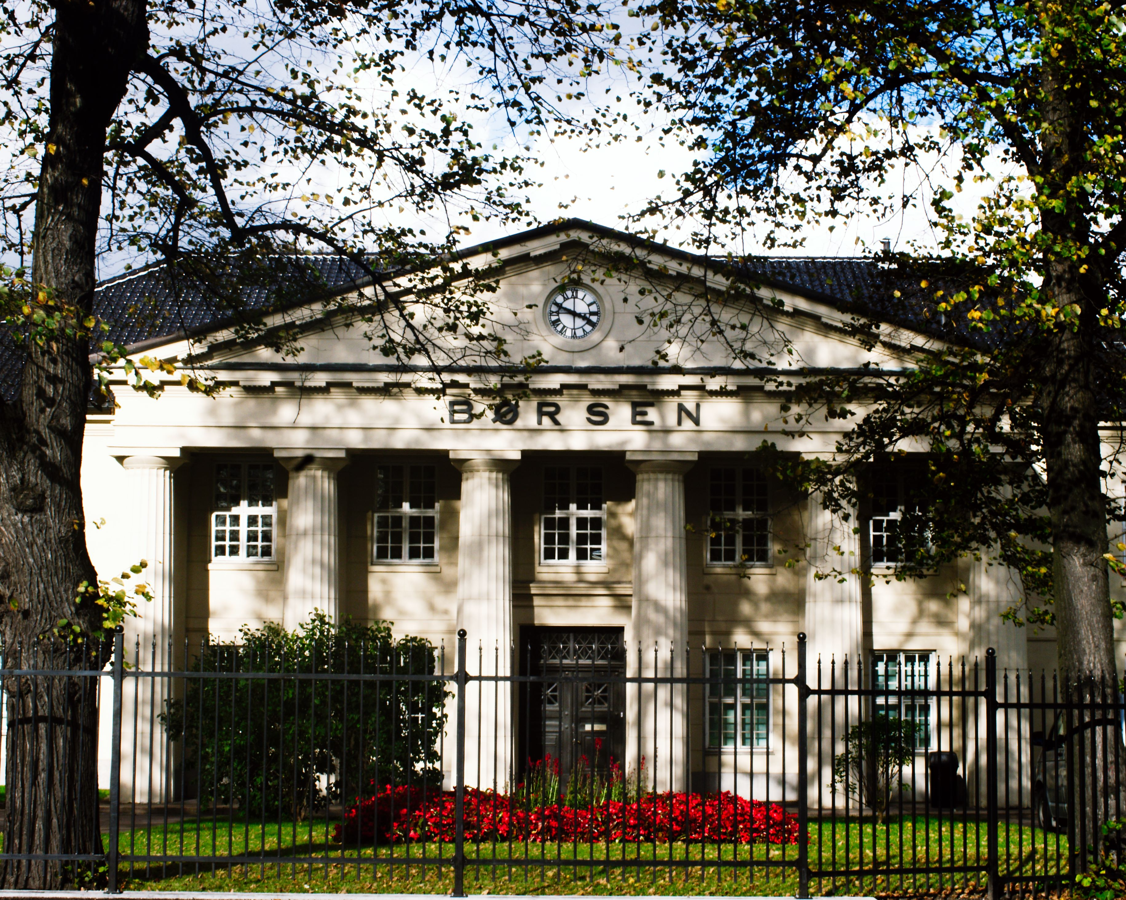 Børsen (The Stock exchange), Tollbugata 2, Oslo. Built 1826-1828. Architect: Christian Grosch. Greatly developed 1910. Architect: Carl Michaelsen.